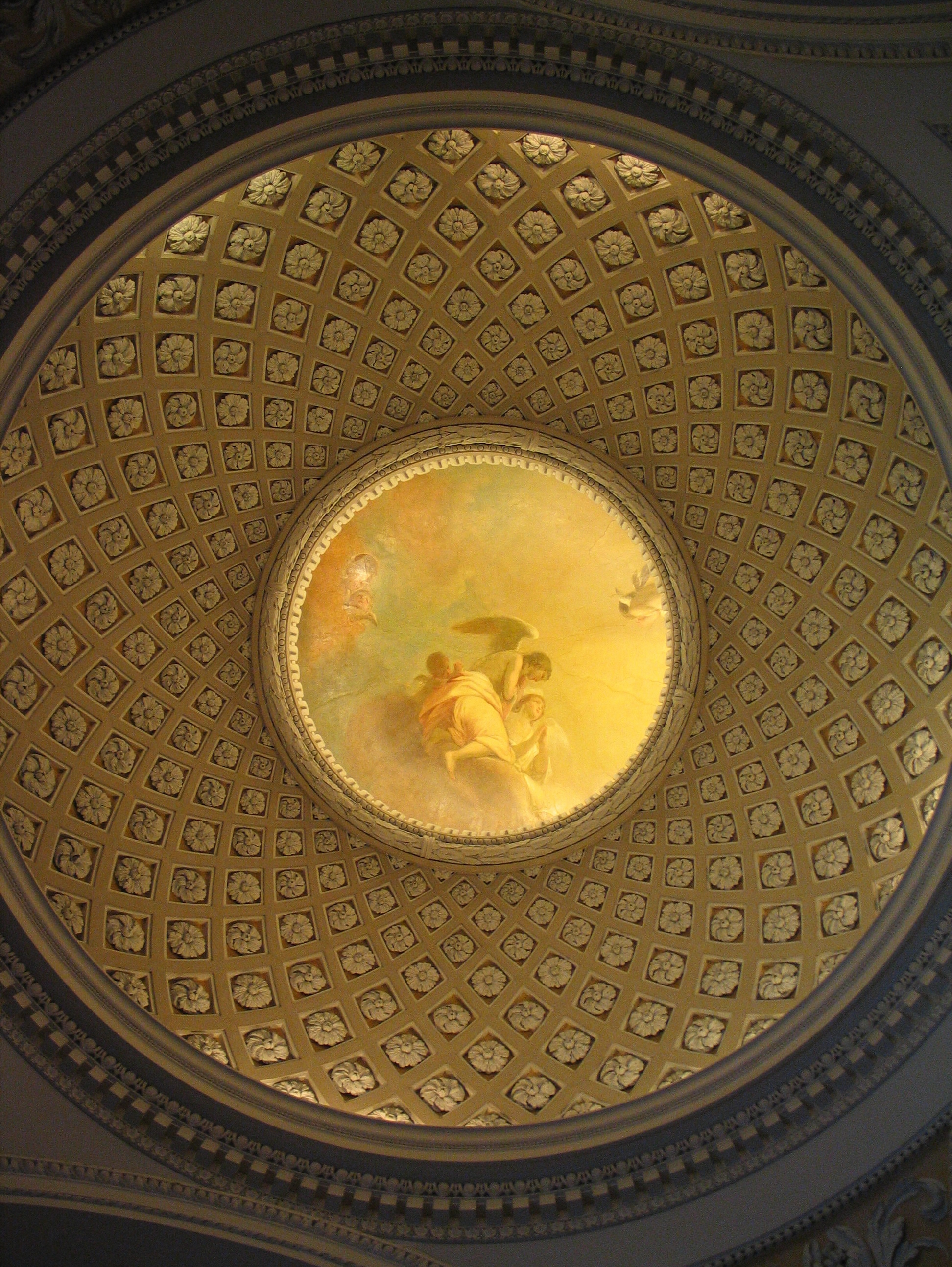 Painting in the Church of Nikolai Leipzig/Germany; painter: Friedrich Oeser